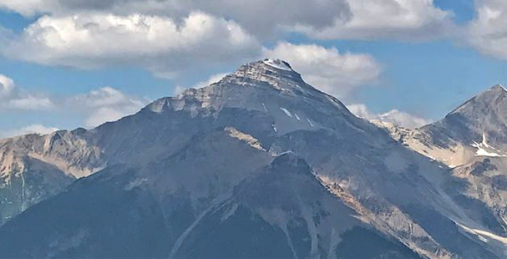 Mount Carnarvon seen from shoulder of Mount Burgess. Yoho National Park, Canada